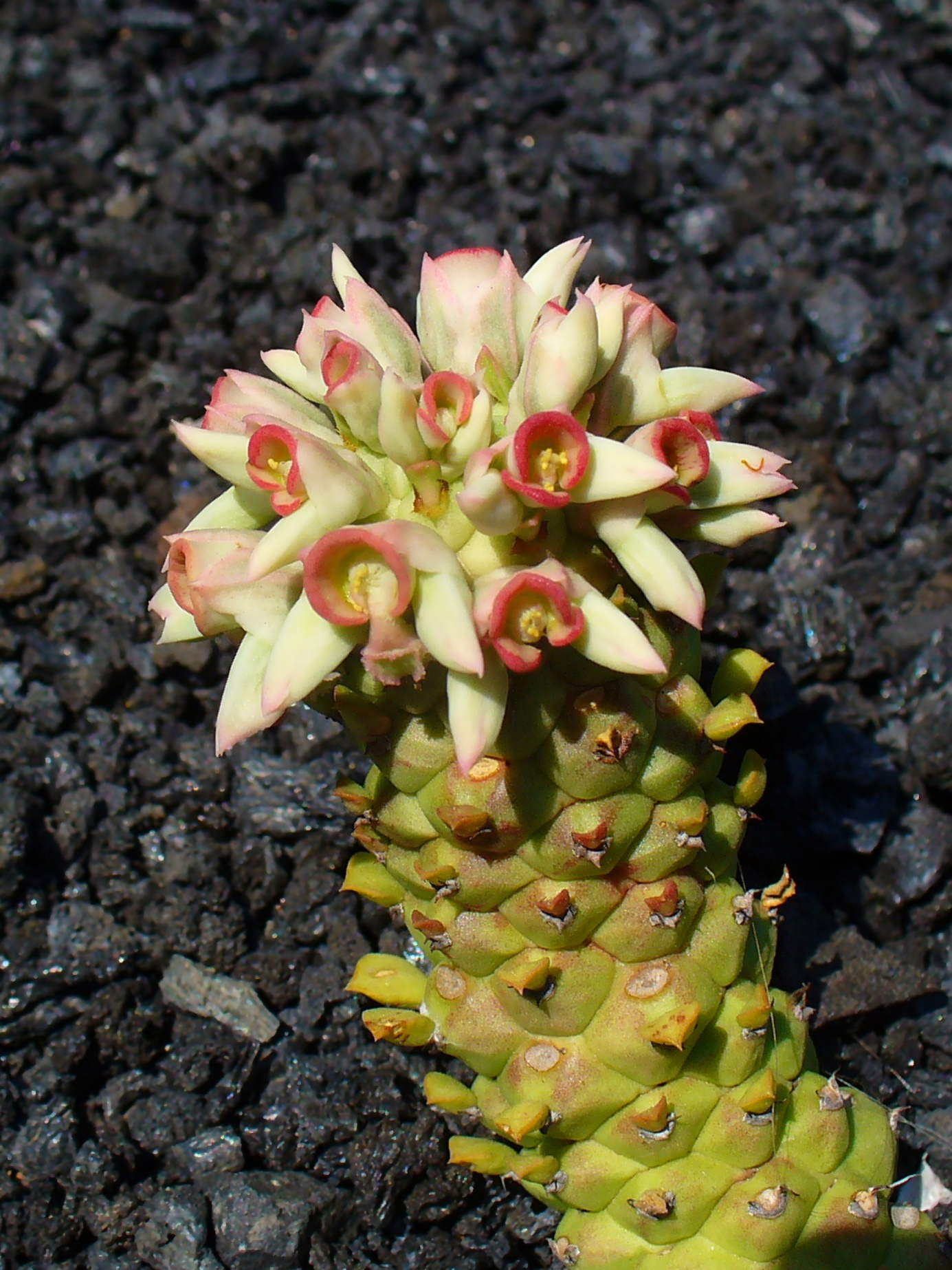 Cyathia; Jardin de Cactus, Guatiza, Lanzarote, Canary Islands, Spain.